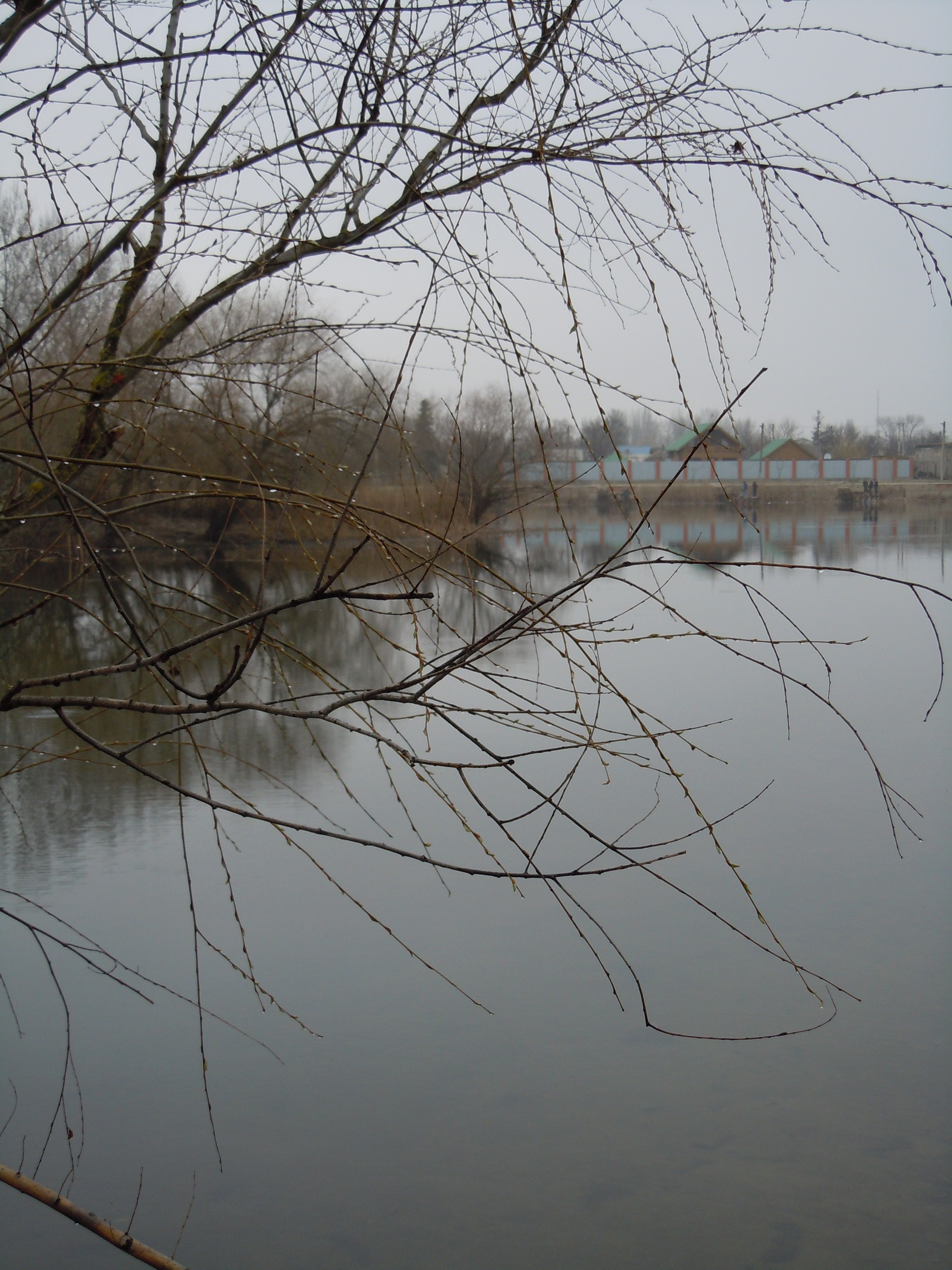 Safyany Lake, Biliayivka